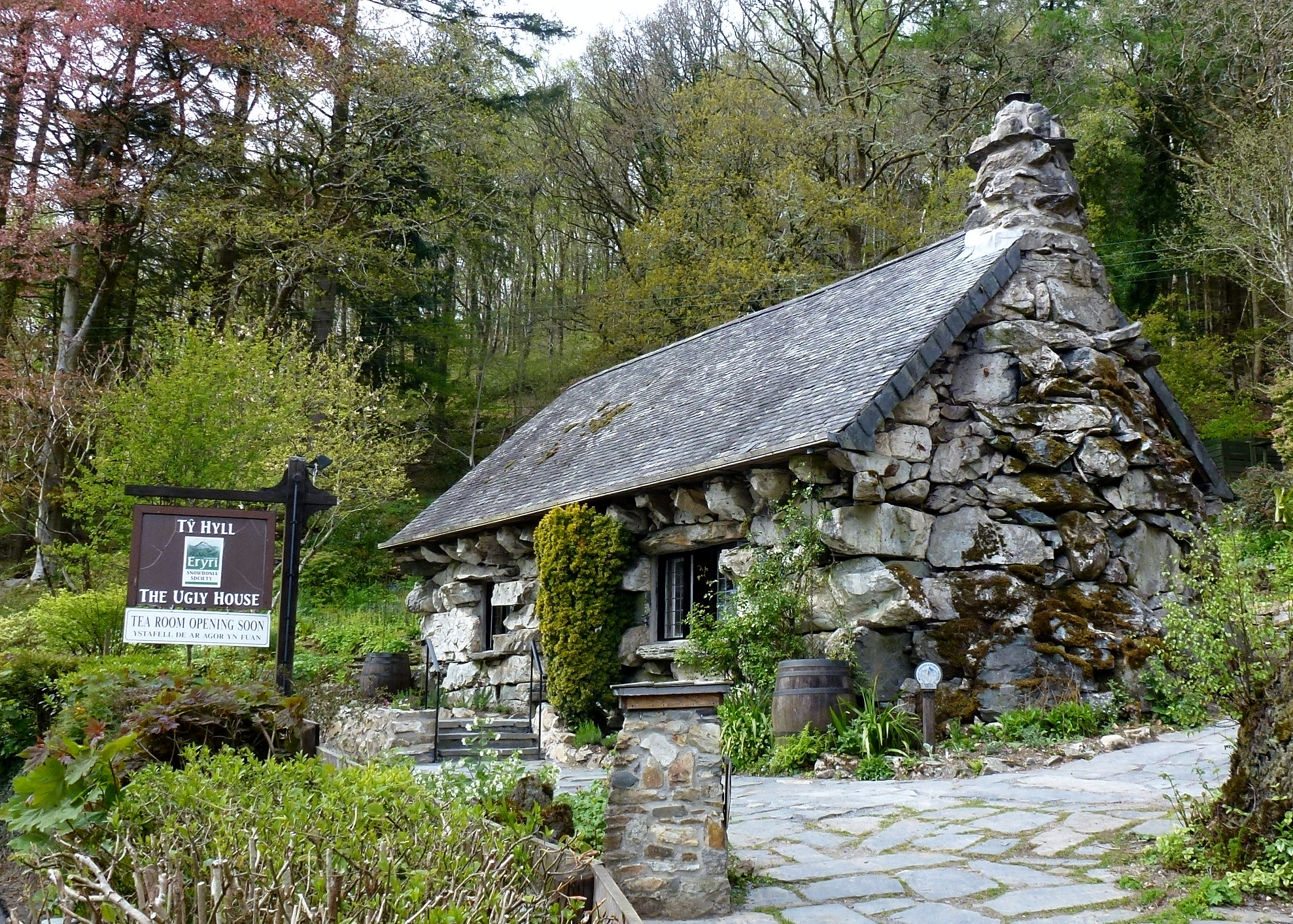 Ty Hyll, The Ugly House